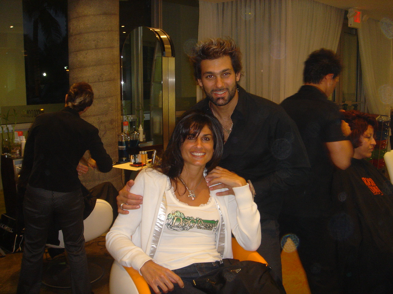 Argentine tennis player Gabriela Sabatini and Celebrity Hair stylist Leonardo Rocco in Miami, Florida, United States of America.